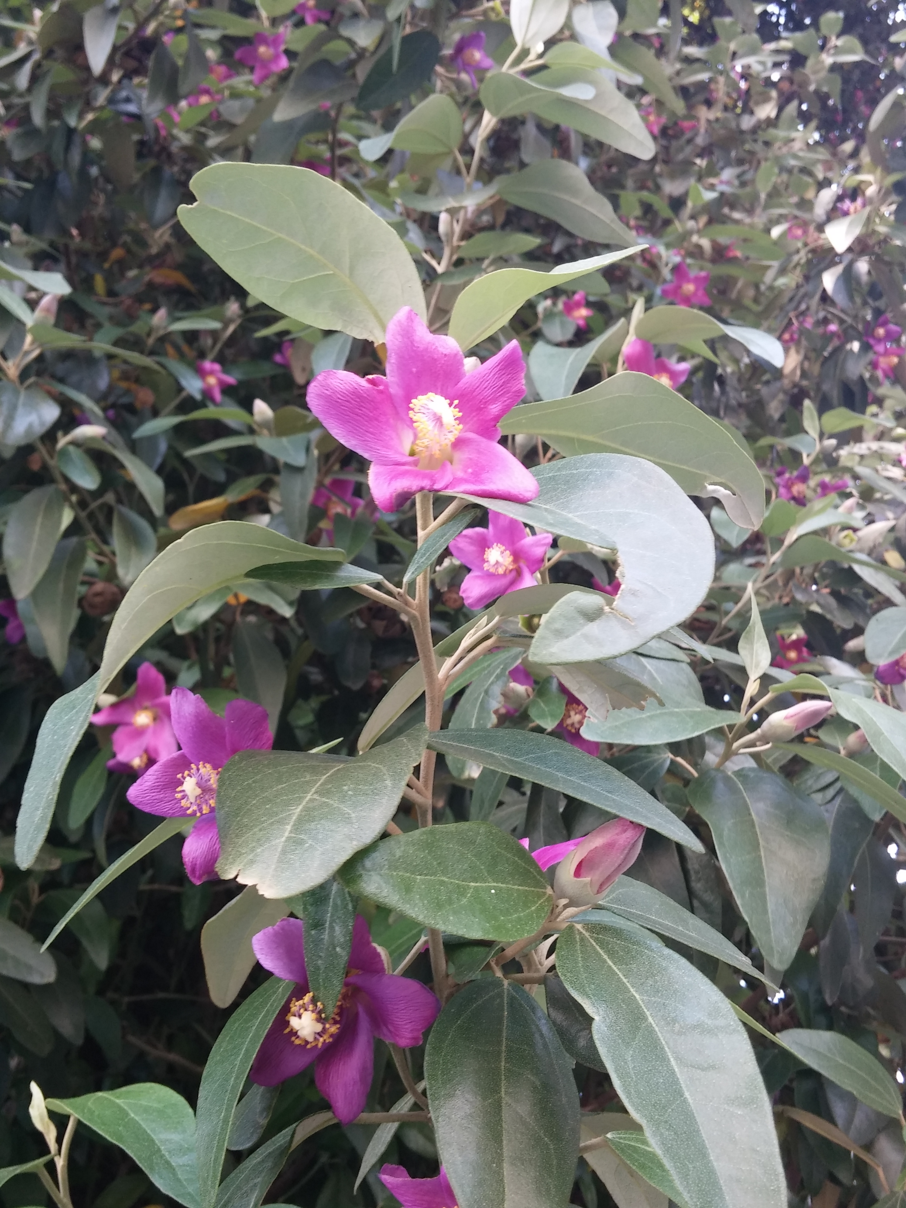 Lagunaria patersonia flower